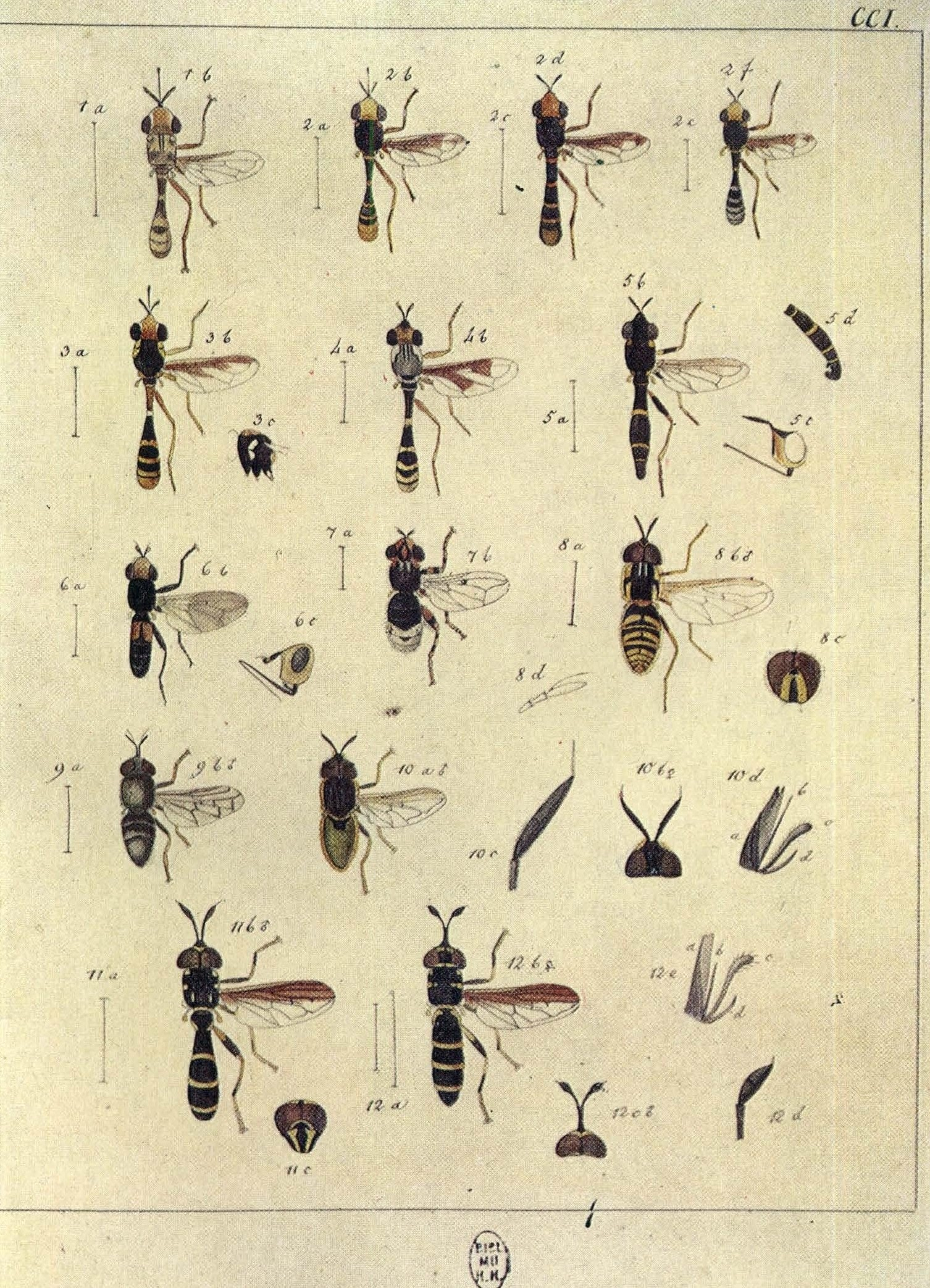 Johann Wilhelm Meigen, 1790 Abbildung der europäischen zweiflügeligen Insekten nach der Natur Von Joh. Wilh. Meigen zu Stolberg bei Aachen 1 Taf CCI plate text Valid names and synonyms at Catalogue of Life (Annual Checklist) and Nomenclator. Types at MNHN collections database Note Europäischen Zweiflügeligen includes species described by previous authors - Linnaeus, Wiedemann, Fabricius, Scopoli, Forster ,Rossi, Macquart, Robert etc. Working record only 1.Conops variegata valid name Physocephala variegata (Meigen, 1824: 132) 2. vittata m, f valid name Physocephala vittata (Fabricius, 1794: 392) 3.chrysorrhoea valid name Physocephala chrysorrhoea (Meigen, 1824: 128) 4. lacera valid name Physocephala lacera (Meigen, 1824: 130) 5.ceriaeformis valid name Conops ceriaeformis Meigen, 1824: 132 6.Myopa bicolor valid name Melanosoma bicolor (Meigen, 1824: 147) 7.-Stigma valid name Myopa stigma Meigen, 1824: 148 8.Chrysotoxum hortense valid name Chrysotoxum fasciatum (Muller, 1764: 85) uncertain 9.Microdon anthinus valid name Microdon (Microdon) devius (Linnaeus, 1761: 446) 10. Callicera aenea valid name Callicera aenea (Fabricius, 1777: 305) 11. Ceria subsessilis valid name Sphiximorpha subsessilis (Illiger, 1807: 446) 12-conopsoides valid name Ceriana conopsoides (Linnaeus, 1758: 590)